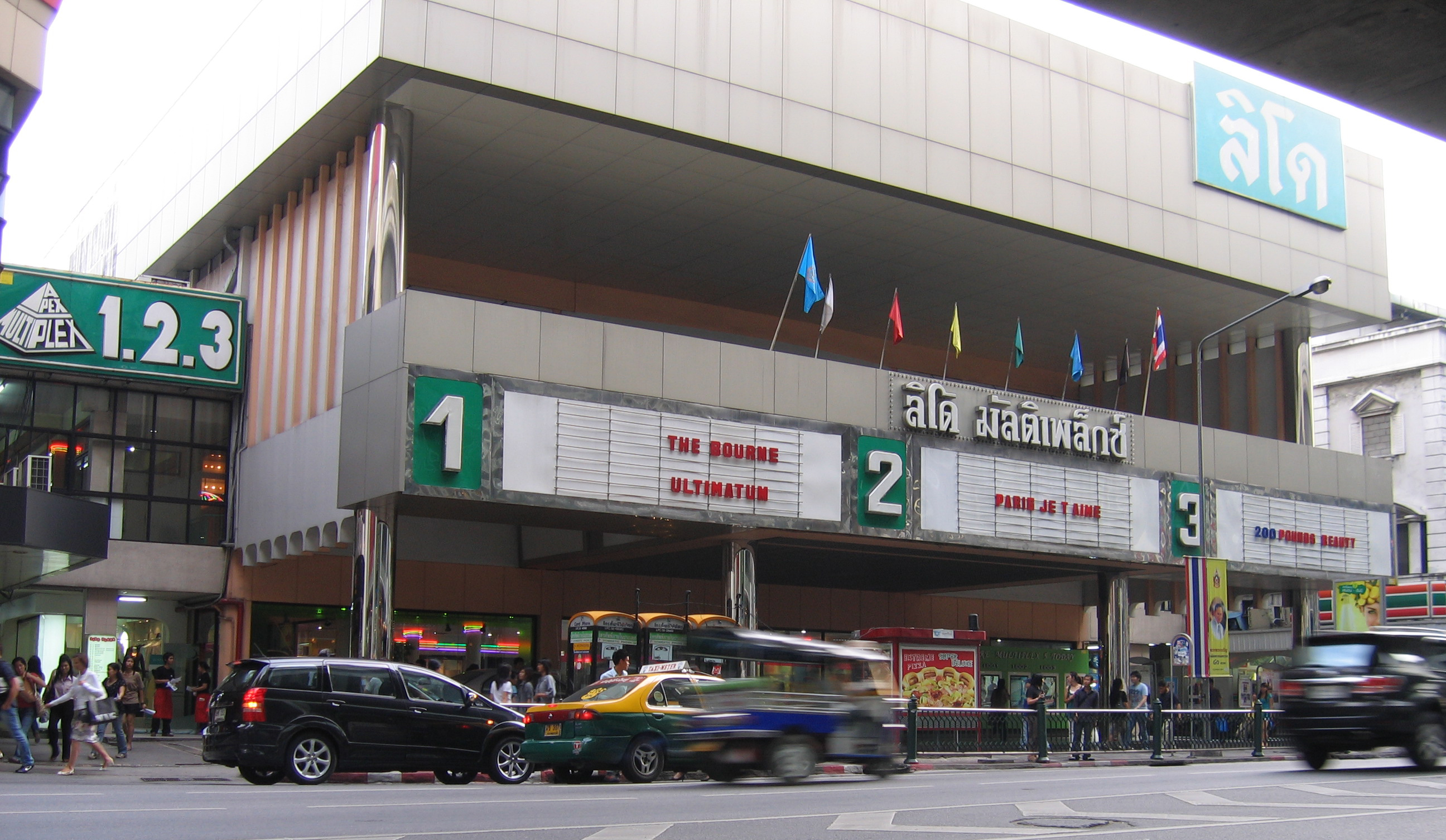 The Lido Cinemas in Siam Square, Bangkok, Thailand.